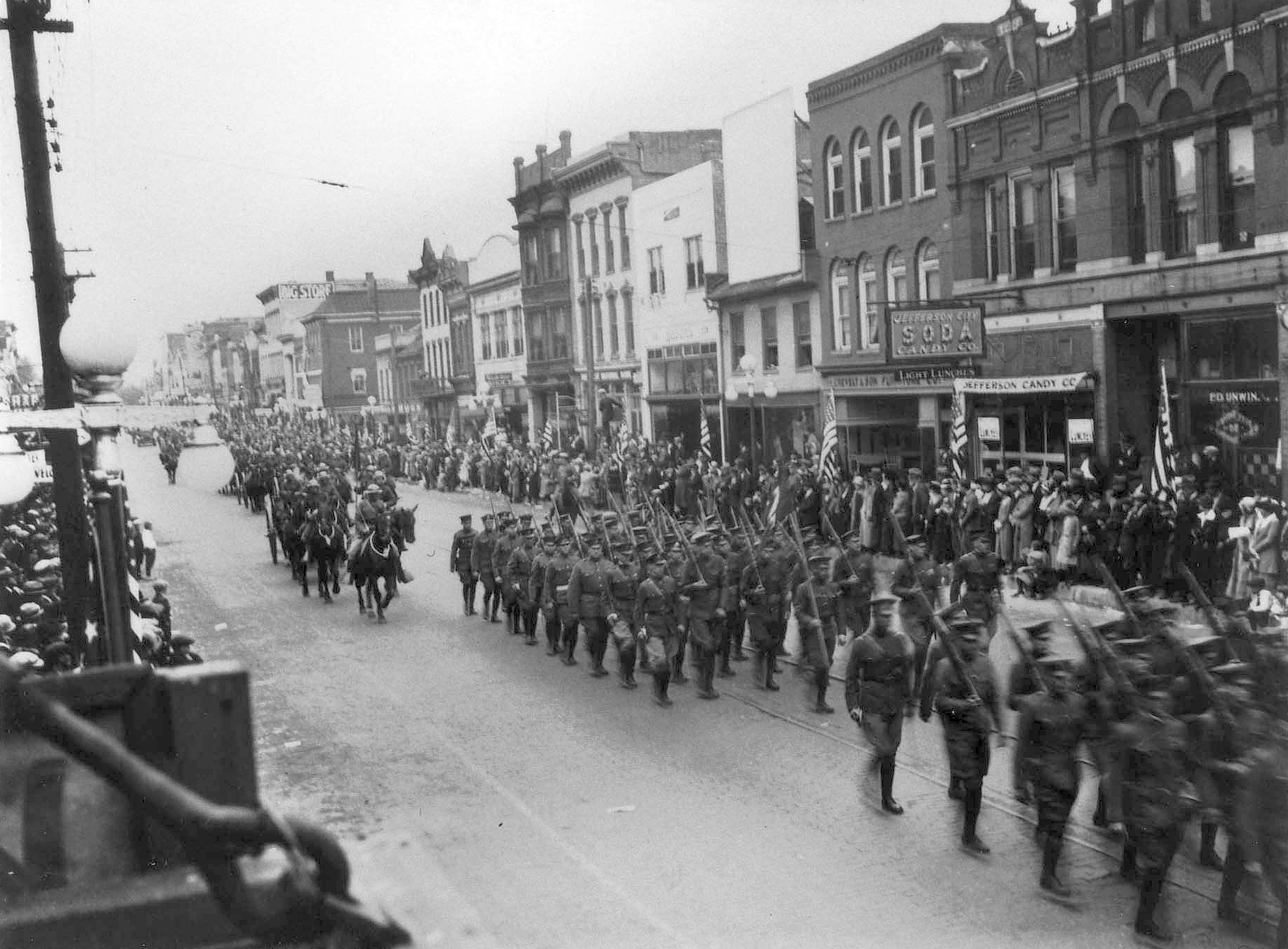 Collection Name: Don Walther Photograph Collection Photographer/Studio: Unknown Description: Parade through downtown Jefferson City. Coverage: United States – Missouri – Cole – Jefferson City Date: October 26, 1924 Rights: Please contact the [#// Missouri State Archives] for information on reproduction and use. Credit: Courtesy of Missouri State Archives Image Number: MS0268_106_00_04 Institution: Missouri State Archives